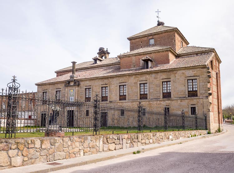 Museo Manuel Aznar